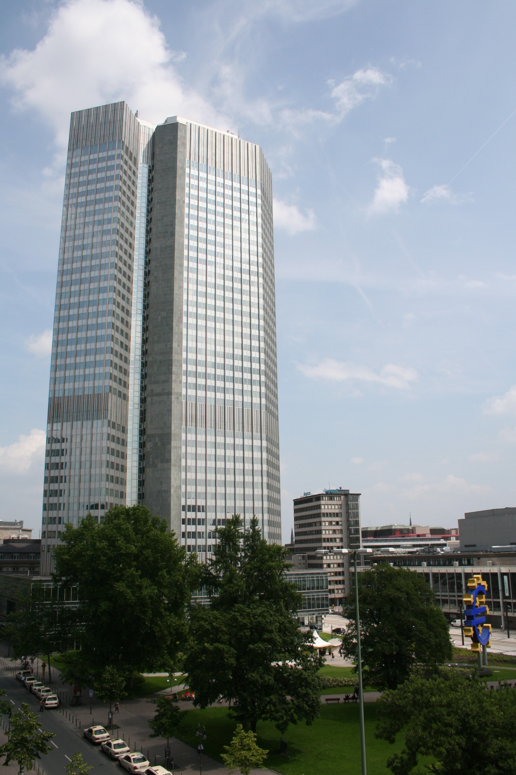 The Tower of the European Central Bank at Willy-Brandt-Platz in Frankfurt am Main. To the right there is a sculpture showing the Euro Sign.